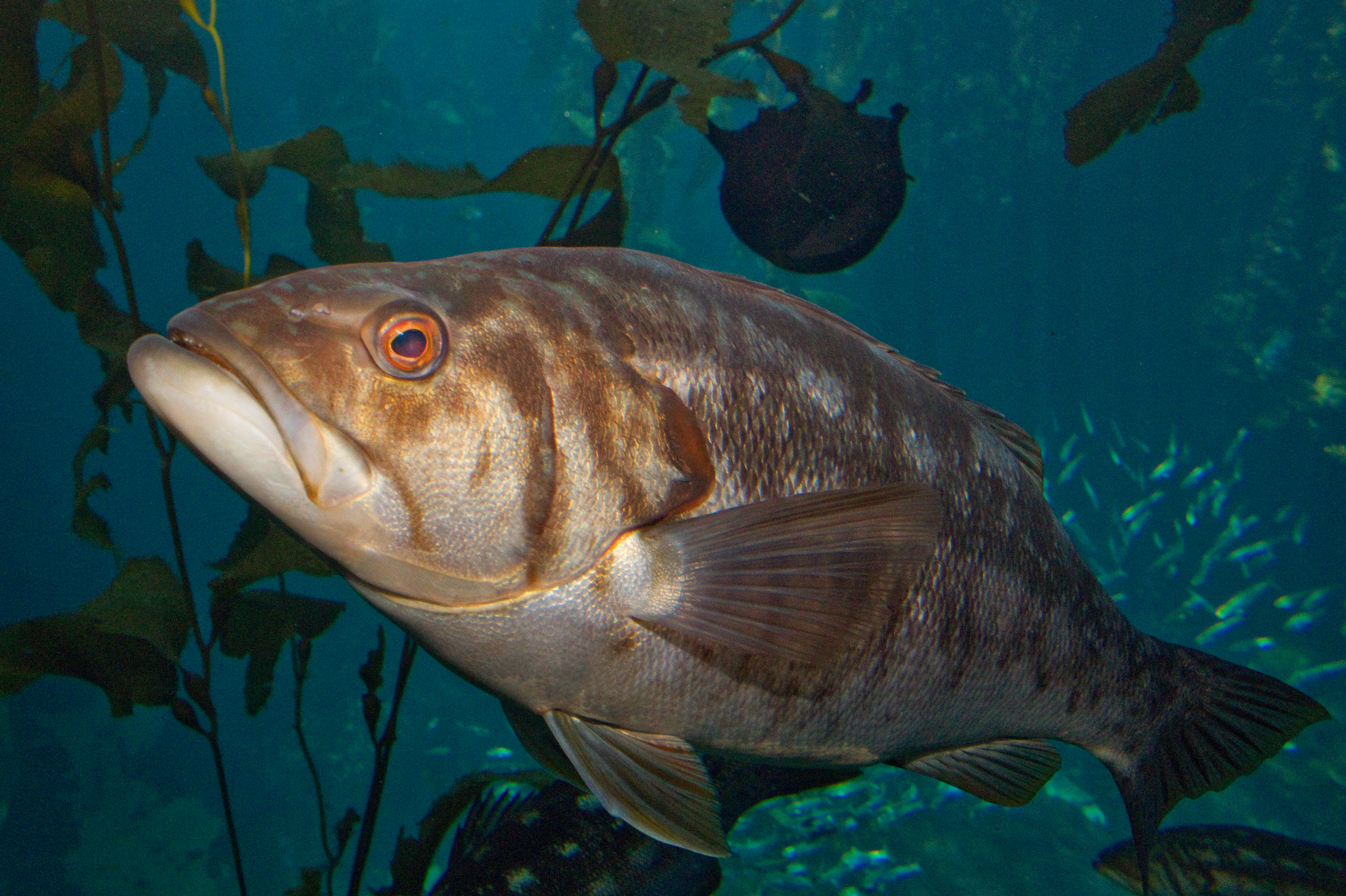 Paralabrax clathratus in California